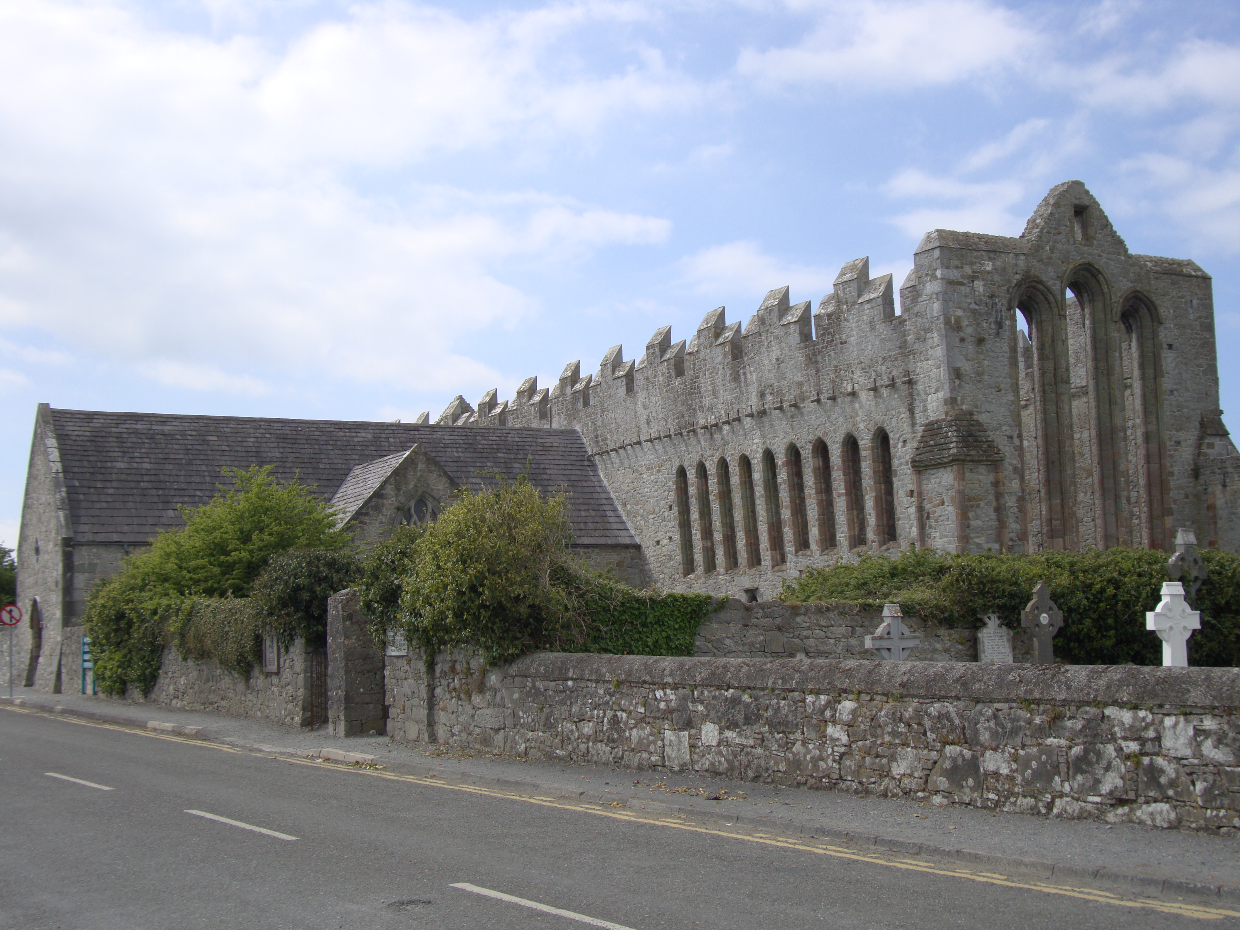 Photograph of Ardfert Cathedral, Co. Kerry, Ireland